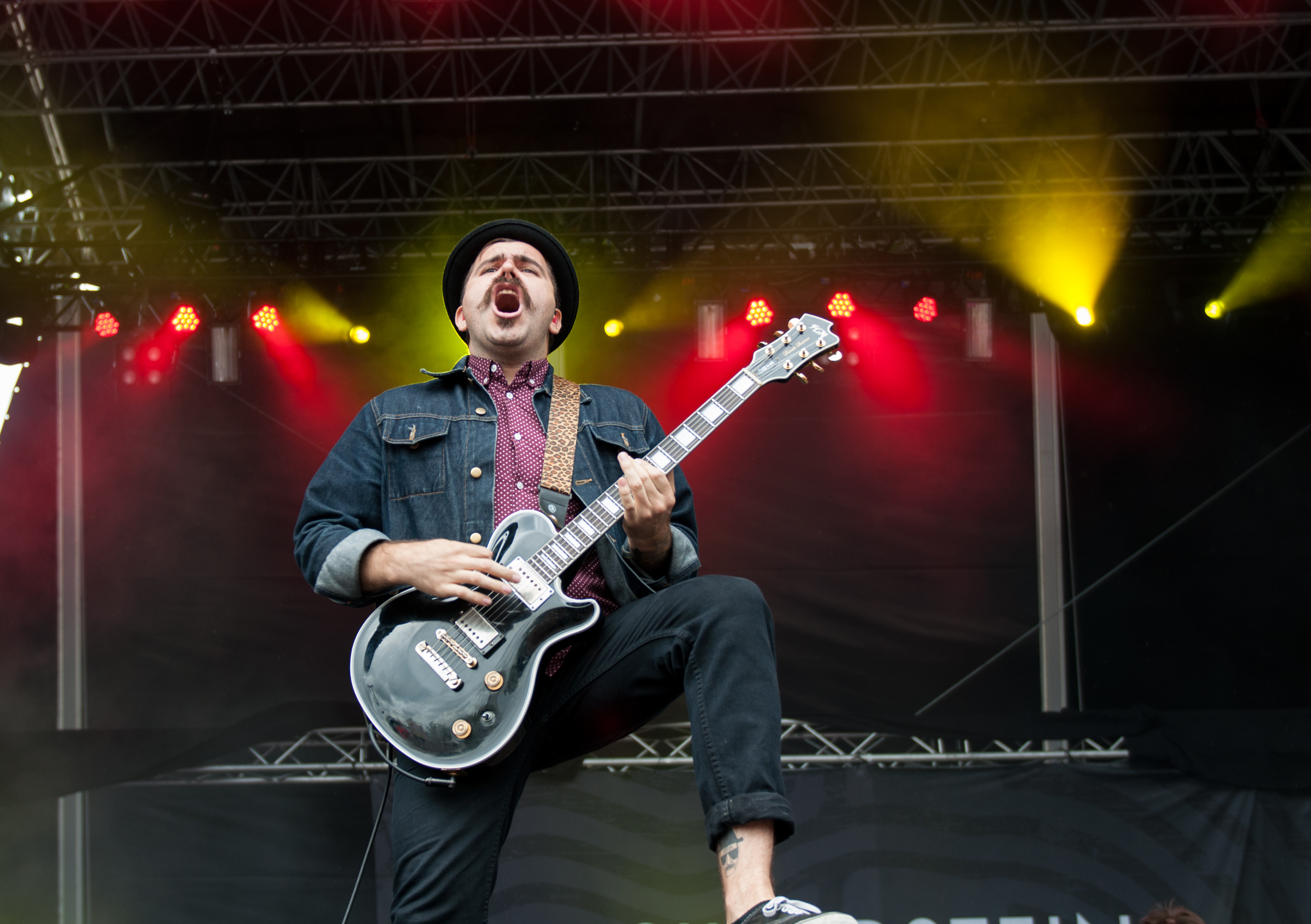 Silverstein at Vainstream Rockfest 2014